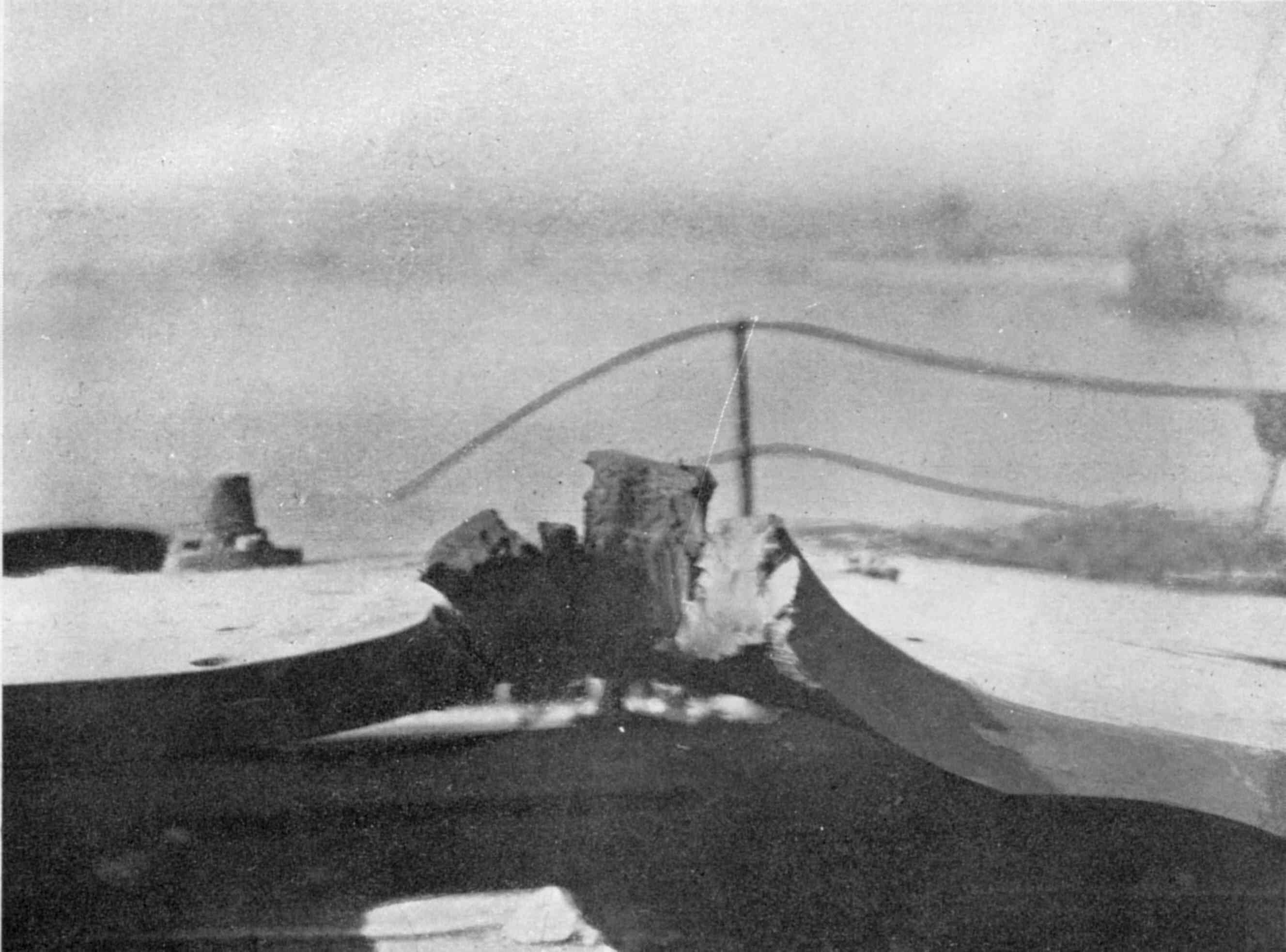 Armour plate removed from roof of Q turret on HMS Lion, damaged in Battle of Jutland 1916.